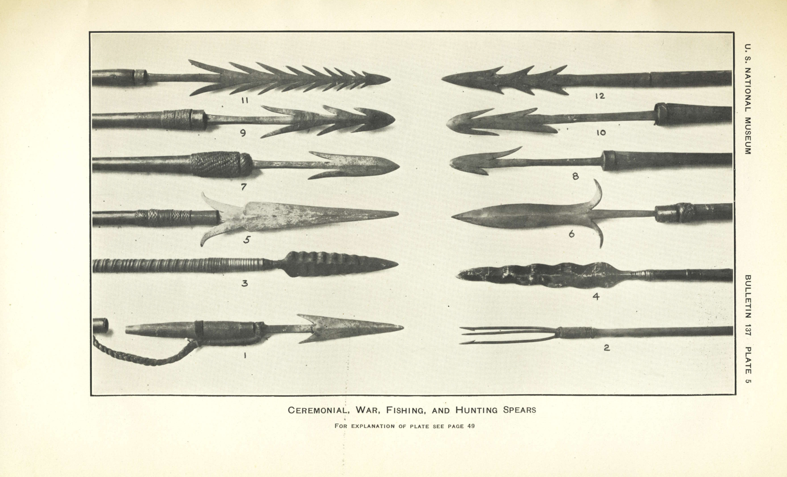 Plate 5 -- Ceremonial, war, fishing, and hunting spears: Barbed, serpentine, harpoon, and compound types of iron and steel spearheads. No. 1. Hunting spear, harpoon type, bilaterally barbed. Moro, Mindanao. 2. Compound spearhead provided with three barbed prongs for use in fishing. Moro, Sulu Archipelago. 3. Serpentine form of steel spearhead socketed on palmwood shaft, shaft wound with plaited rattan and ferruled with brass. Mindanao. 4. Serpentine shape steel lance blade socketed on wooden shaft. Moro, Mindanao. 5. Iron war spear: Bilaterally recurved barbs, palmwood shaft wrapped with braided rattan, iron ferrule. 6. War spear: Hastate shape spear point provided with recurved guard barbs, metal tang inserted in hardwood shaft. Northern Luzon. 7-12. War spears: Multiple barbed iron spear points, short hardwood shafts, wrapped with braided rattan ferrules, iron cap or spud socketed on base of shafts. Igorot, northern Luzon. 11. Ceremonial spear provided with multiple barbs to frighten spirits or "anitos." Igorot, northern Luzon. Other images on Filipino weapons by the same uploader are here: (a) Luzon weapons; (b) Visayan weapons; (c) Moro weapons; and (d) Lumad (non-Moro Mindanao) weaponsa